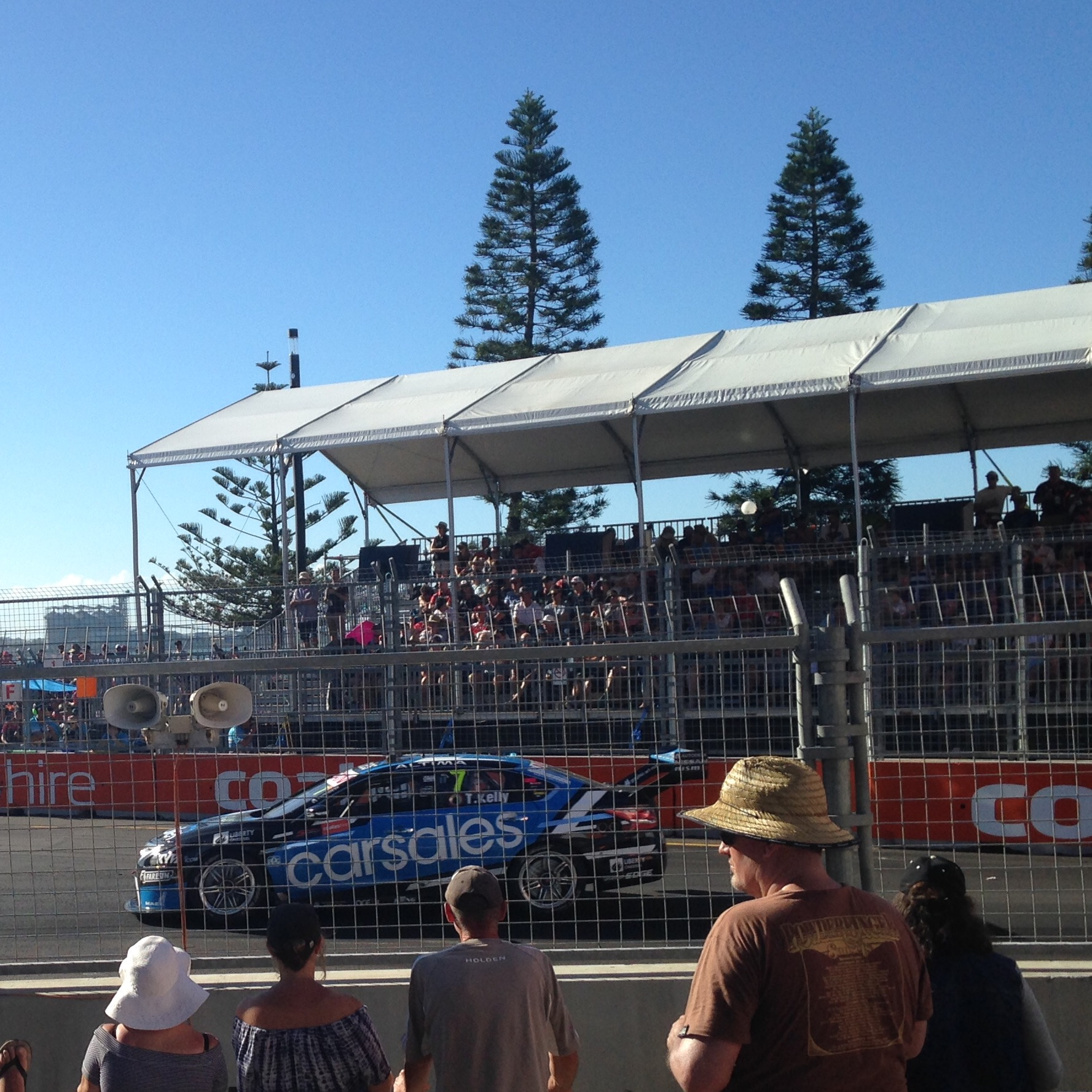 Todd Kelly competing for Nissan Motorsport in the 2017 Newcastle 500